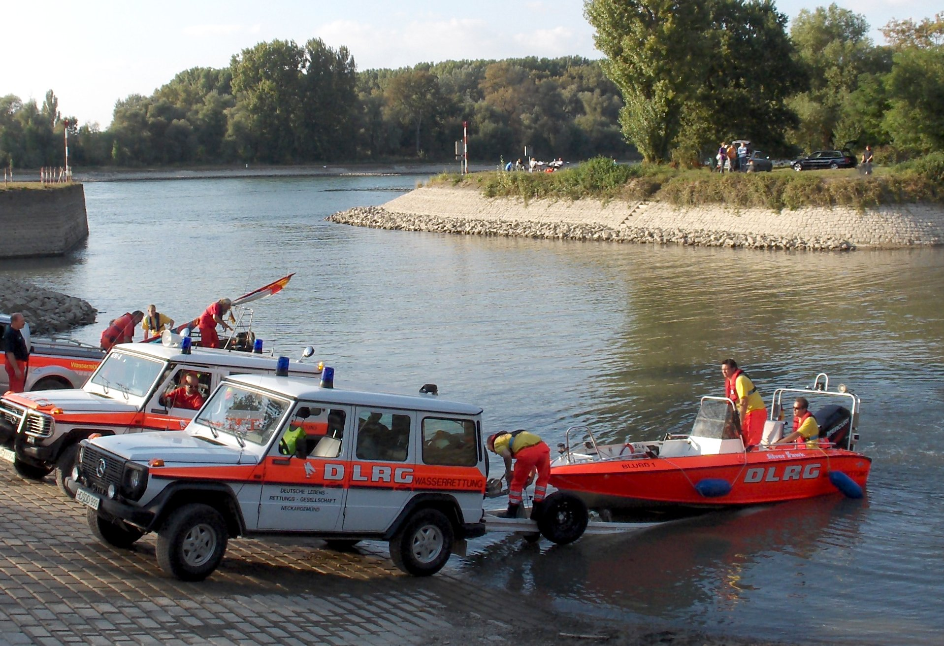 Slipping a motorboat at Karlsruhe/Rhine